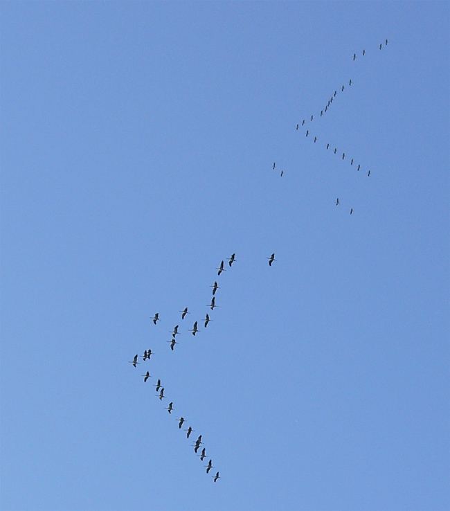 Common Crane